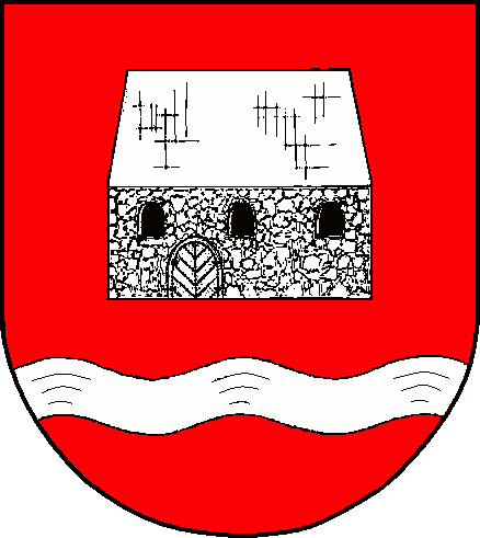 Coat of arms of the municipality Wrist in Schleswig-Holstein, Germany.